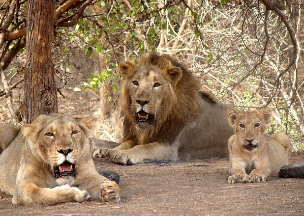 This is asiatic lions family at gir forest near junagadh city,gujarat state,india